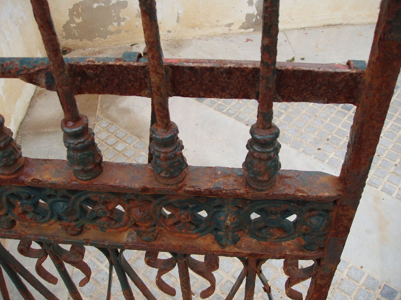 An oxid door.